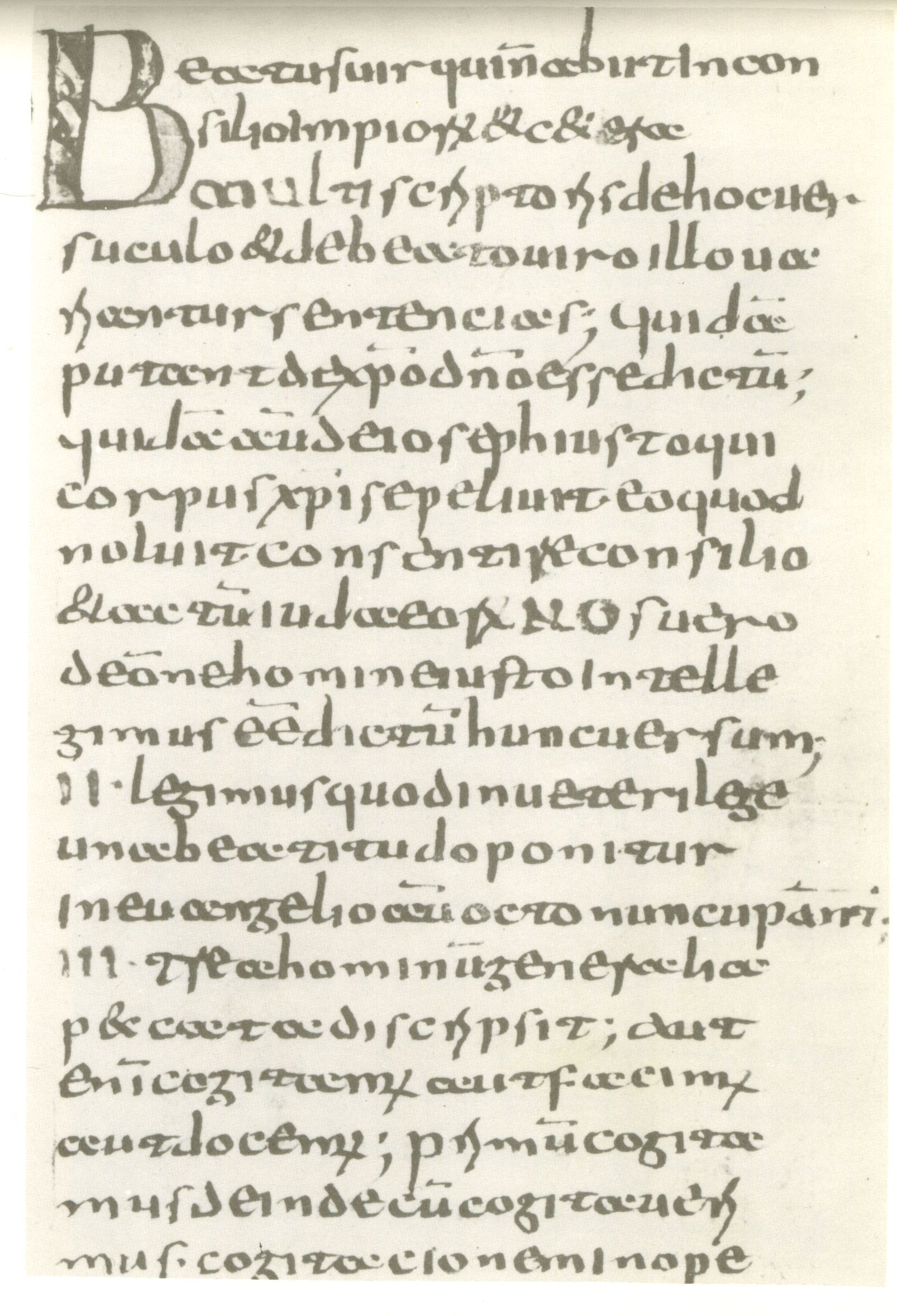 Alemannic script in a manuscript containing biblical texts. Manuscript St. Gallen, Stiftsbibliothek, Ms. 11, page 59.